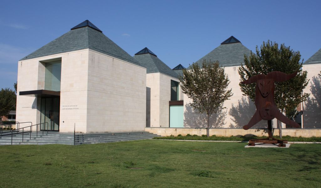 Fred Jones, Jr. Museum of Art, Norman, OK